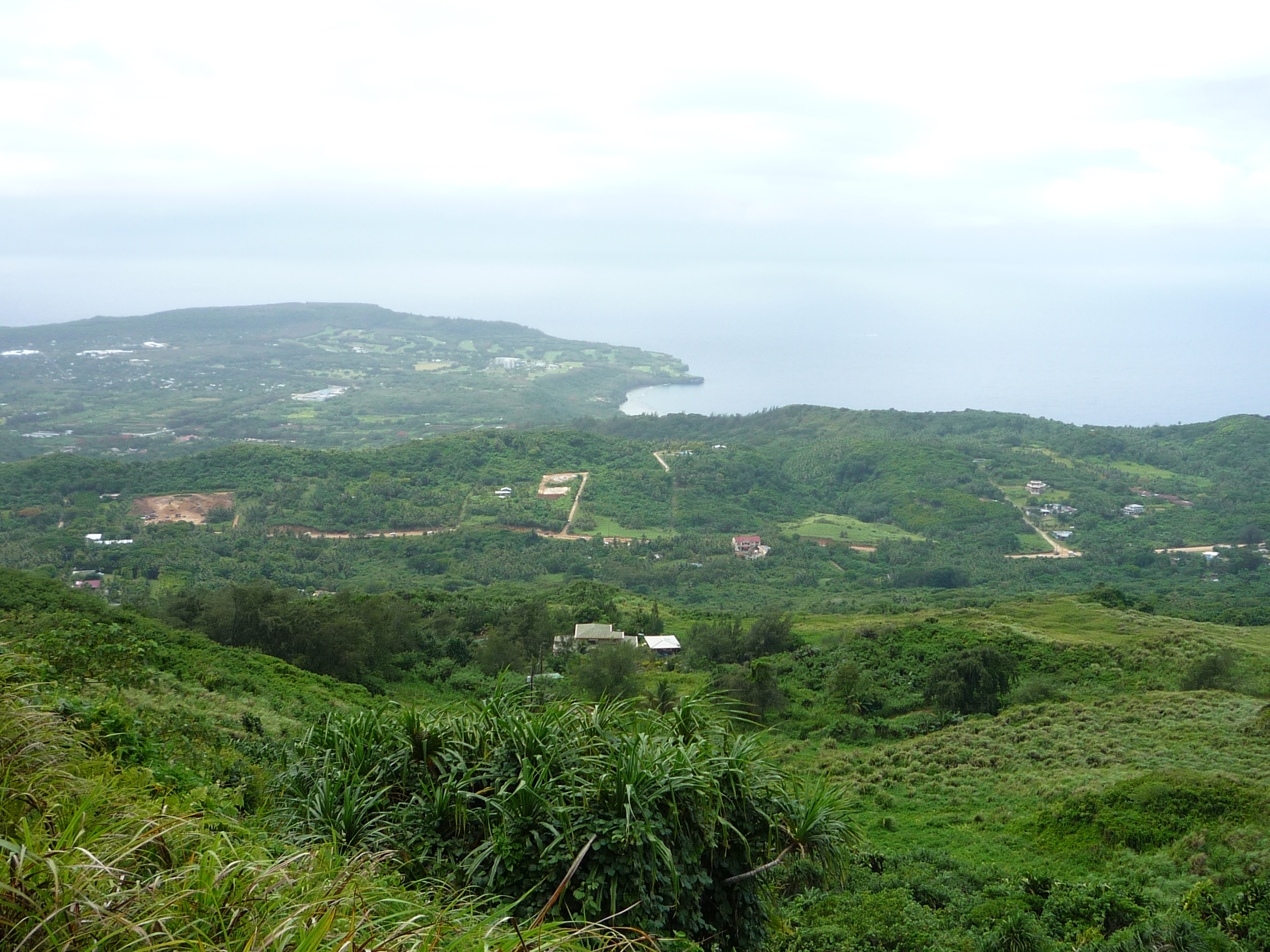 View of Apago Valley and Apago Ridge, Saipan, known as "Death Valley" and "Purple Heart Ridge" during the Battle of Saipan, from the top of Mt Tapochau.